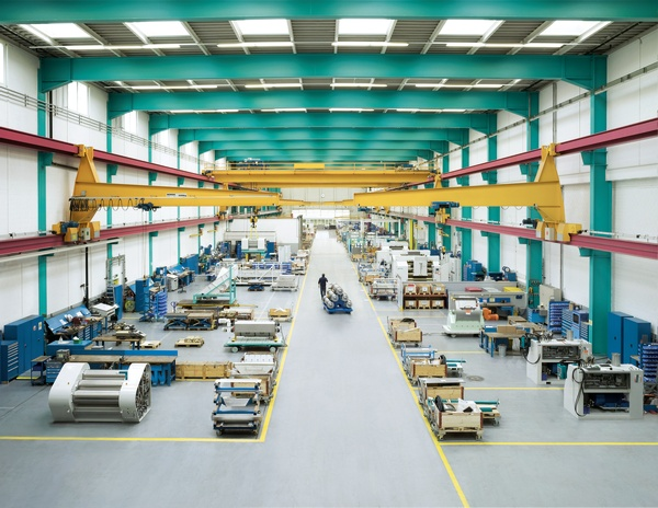 Assembly Hall, Buhler Uzwil